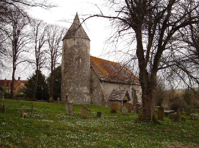 St Peters, Southease. Looking NE